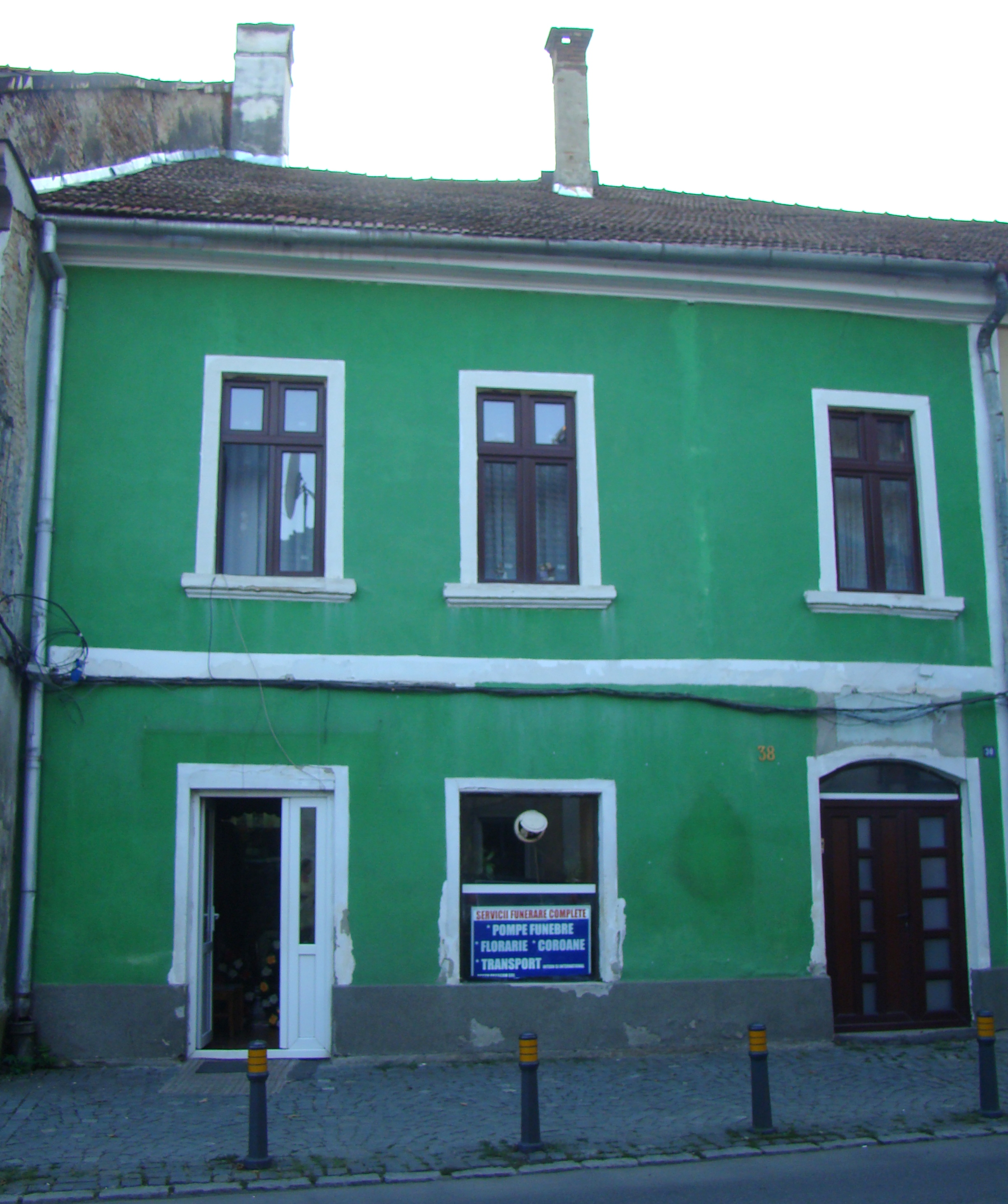 House, historic monument, in Bistrița, Nicolae Titulescu street 38